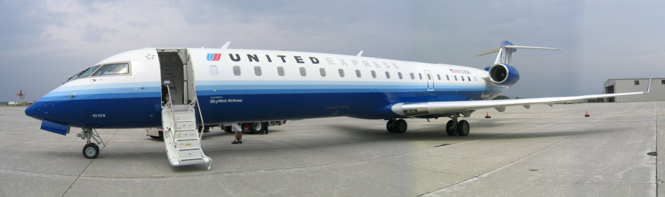 Photo of SkyWest-United Express Canadair CL-600-2C10 . Photographer releases all rights worldwide.